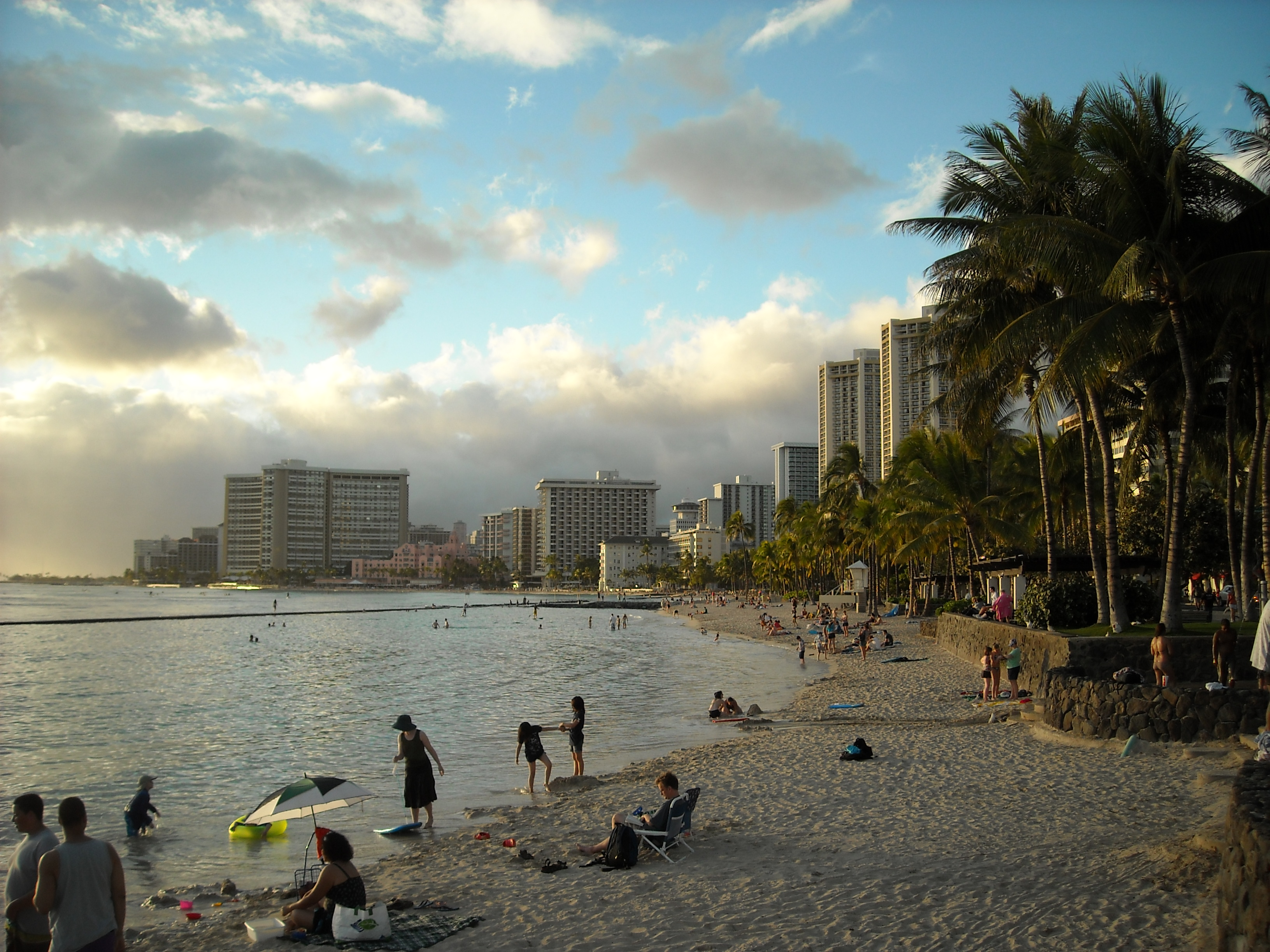 Afternoon in Waikiki